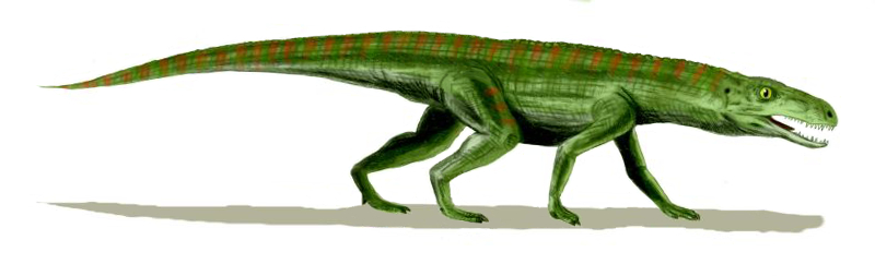 Gracilisuchus stipanicorum, pencil drawing, after Romer, 1972. Gracilisuchus (meaning "gracile crocodile") is the name given to a tiny (30 cm long) genus of crurotarsan (a group which includes the ancestors of crocodilians) from the Middle Triassic of Argentina.